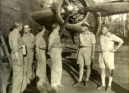 Batchelor, NT. c. July 1944. Lieutenant Colonel Asjes Dutch Commanding Officer of No. 18 (Netherlands East Indies) Mitchell Squadron (second from right) with Group Captain J. P. Ryland, Commanding Officer of No. 79 Wing RAAF (far right) talking with members of the Empire Parliamentary Delegation.